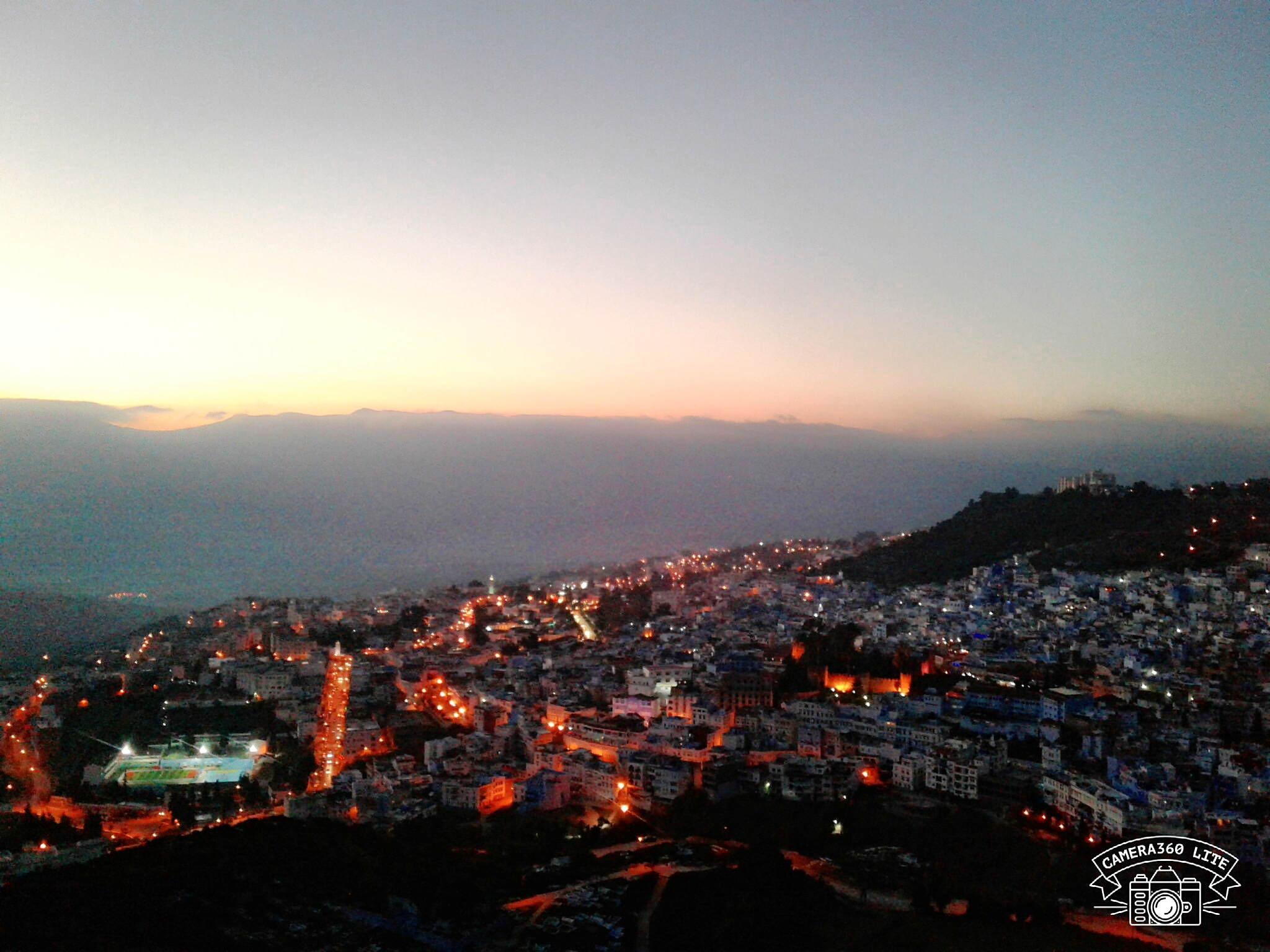 This is an image with the theme "Play" from: Morocco